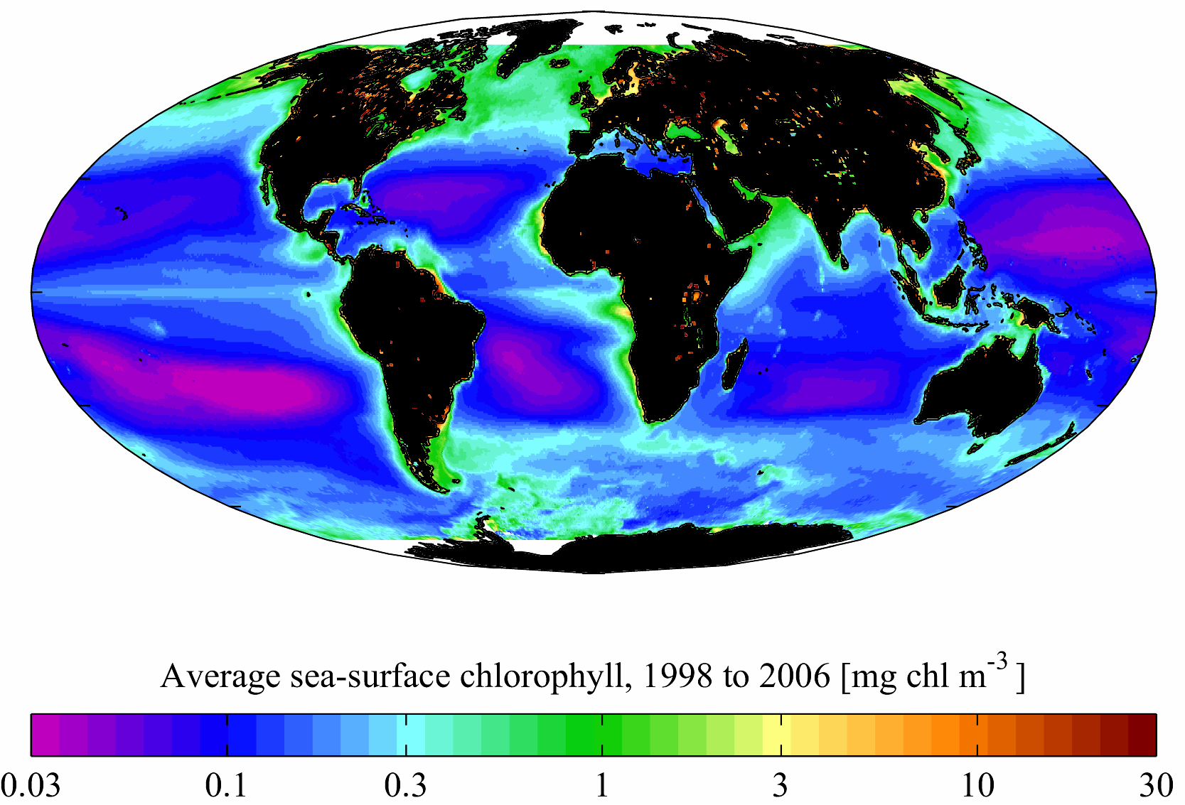 Average sea surface chlorophyll for the period January 1998 to December 2006 from the SeaWIFS satellite. The average is composed from 8 day composites with a spatial resolution of 0.5° in latitude and longitude. Chlorophyll is in mg chl m-3 (note that the colour scale is logarithmic). It is plotted here using a Mollweide projection (using MATLAB and the M_Map package).